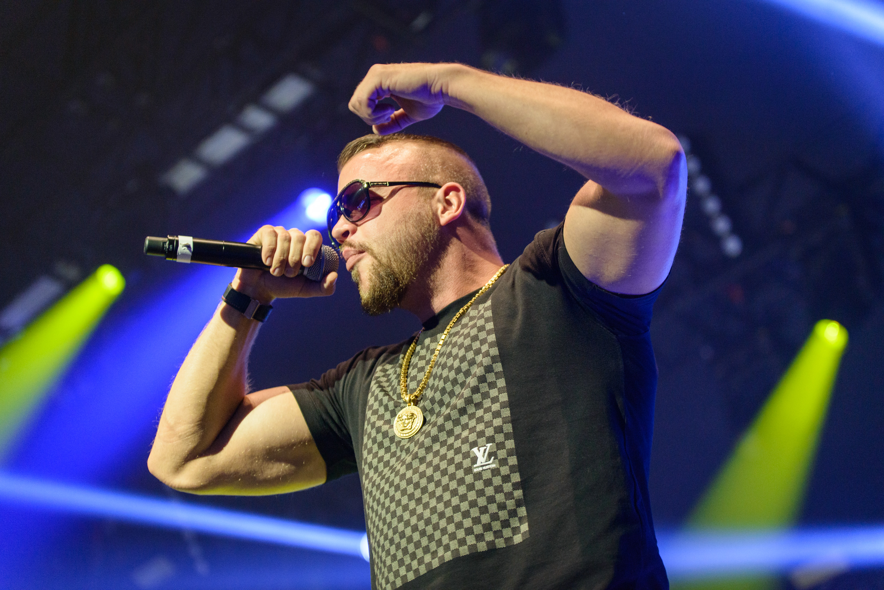 Kollegah in Munich 2015